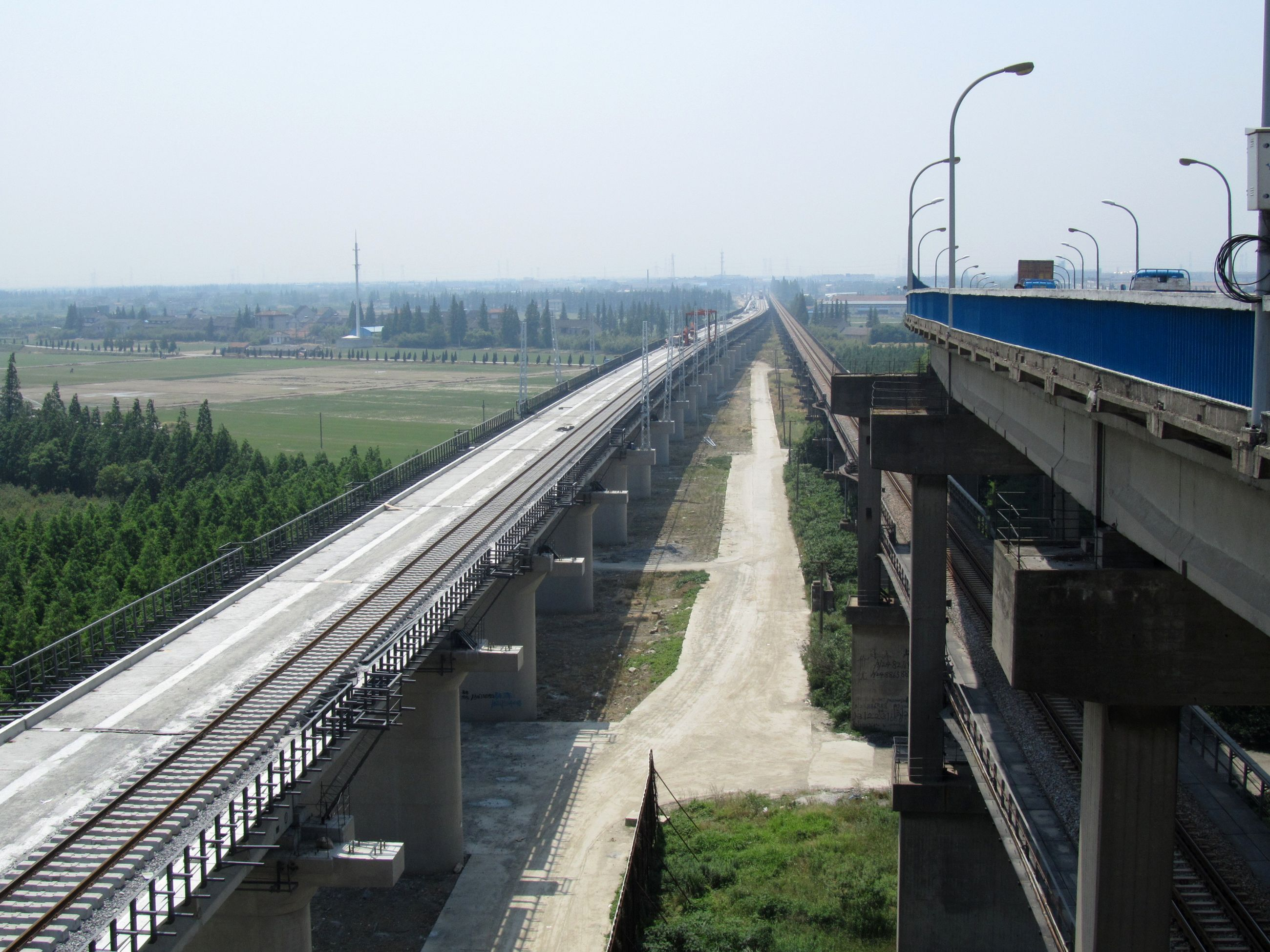 Songpu Bridge